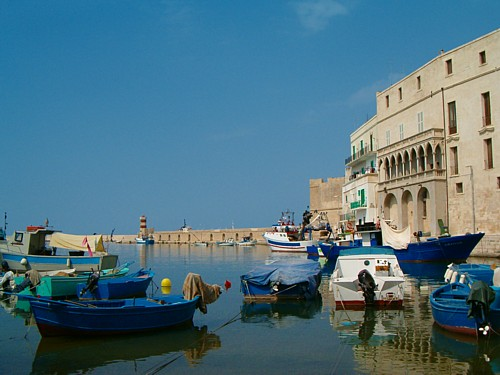 Harbour of Monopoli